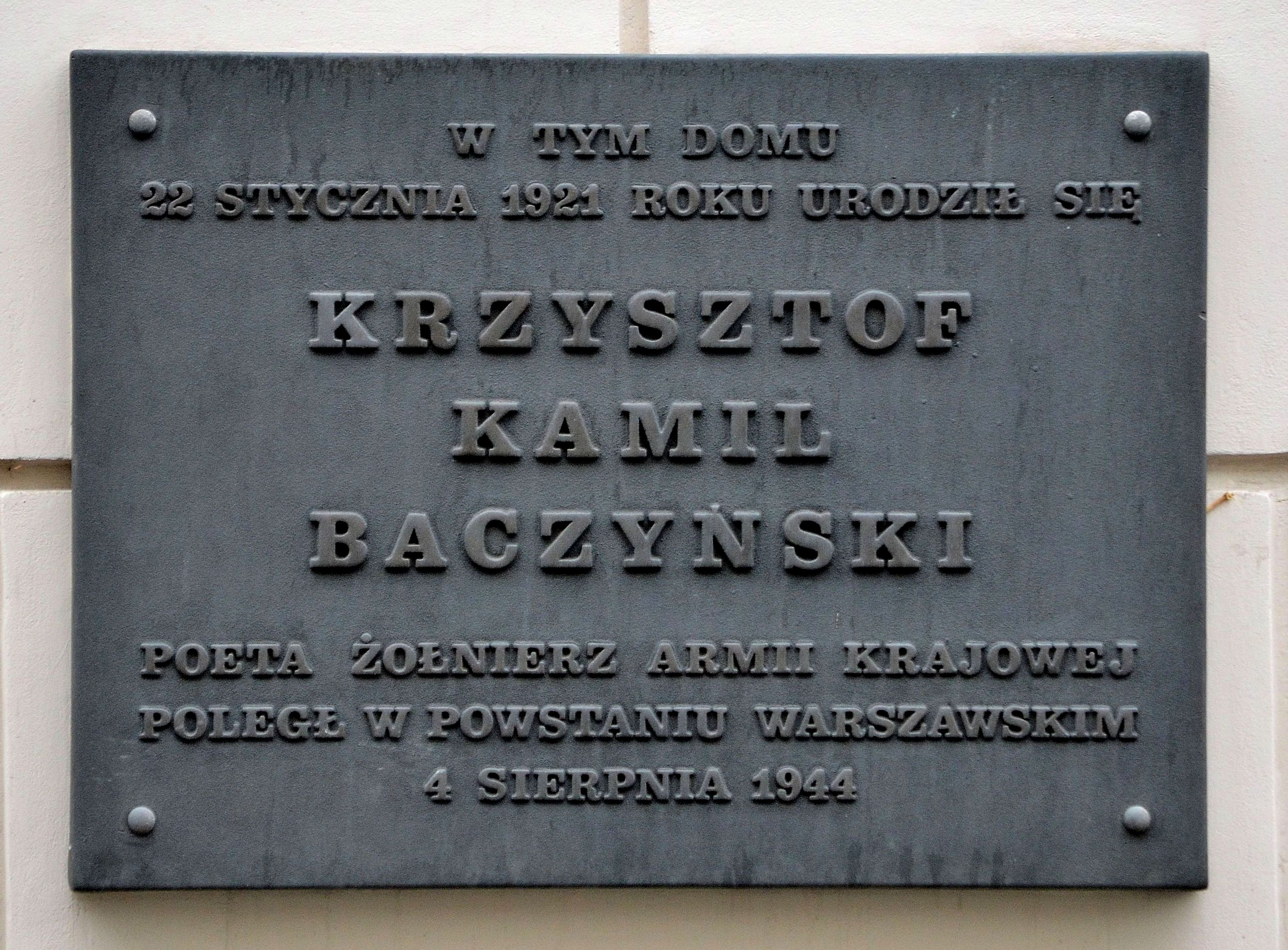 Plaque in memory of Krzysztof Kamil Baczyński at 10 Bagatela Street in Warsaw